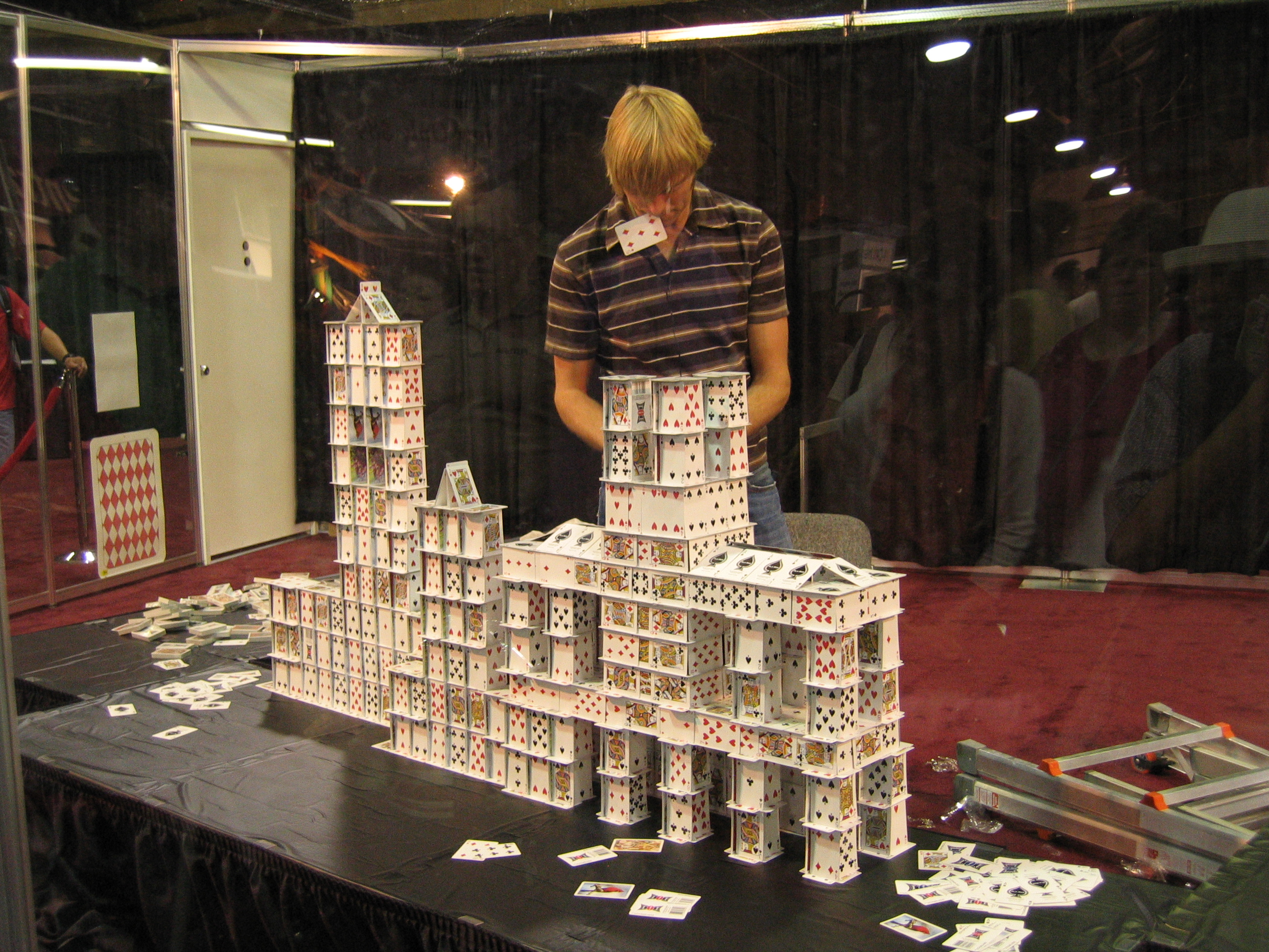 Guinness World Record cardstacker Bryan Berg